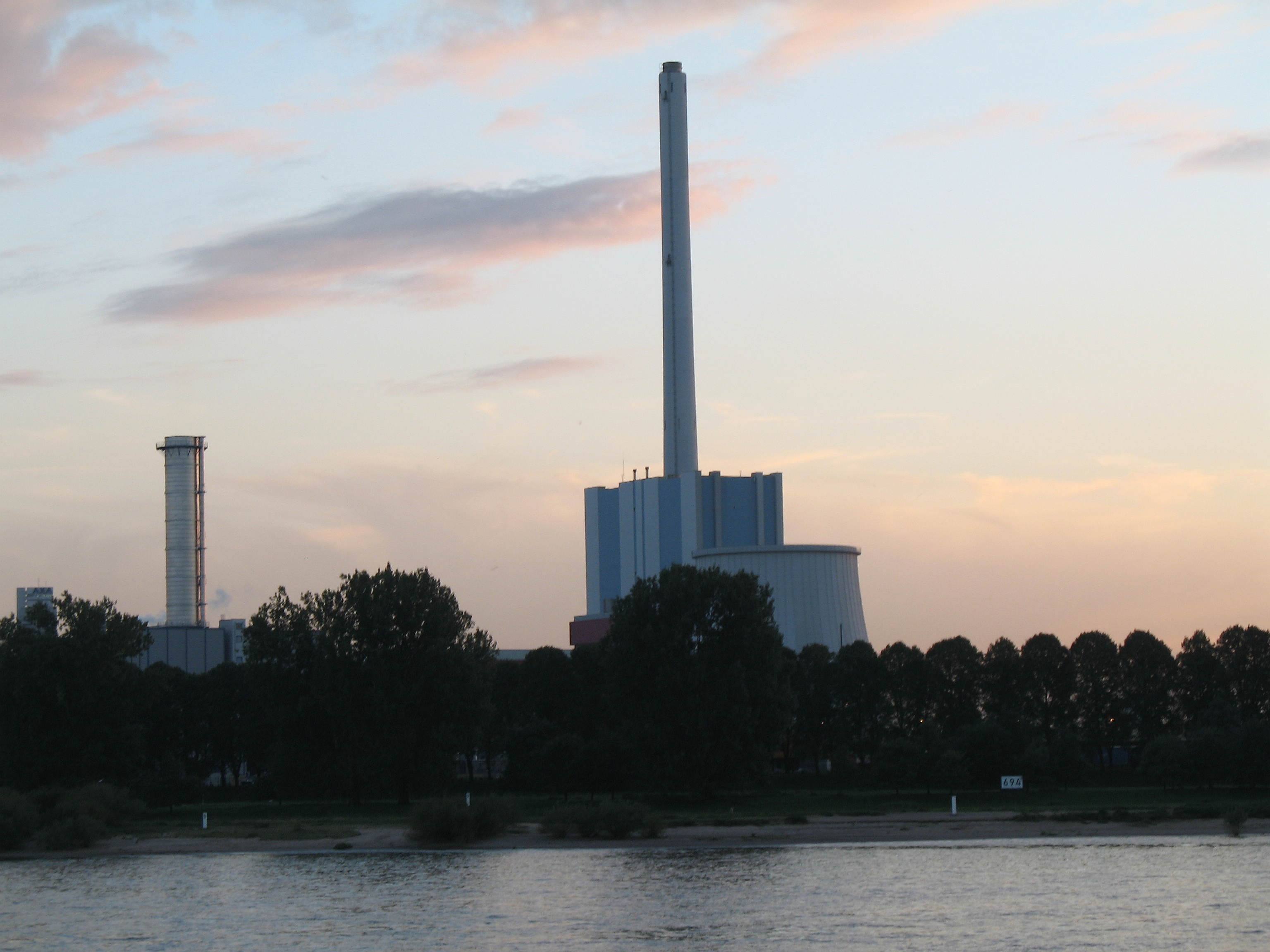 Heat station in Köln-Niehl at sunset